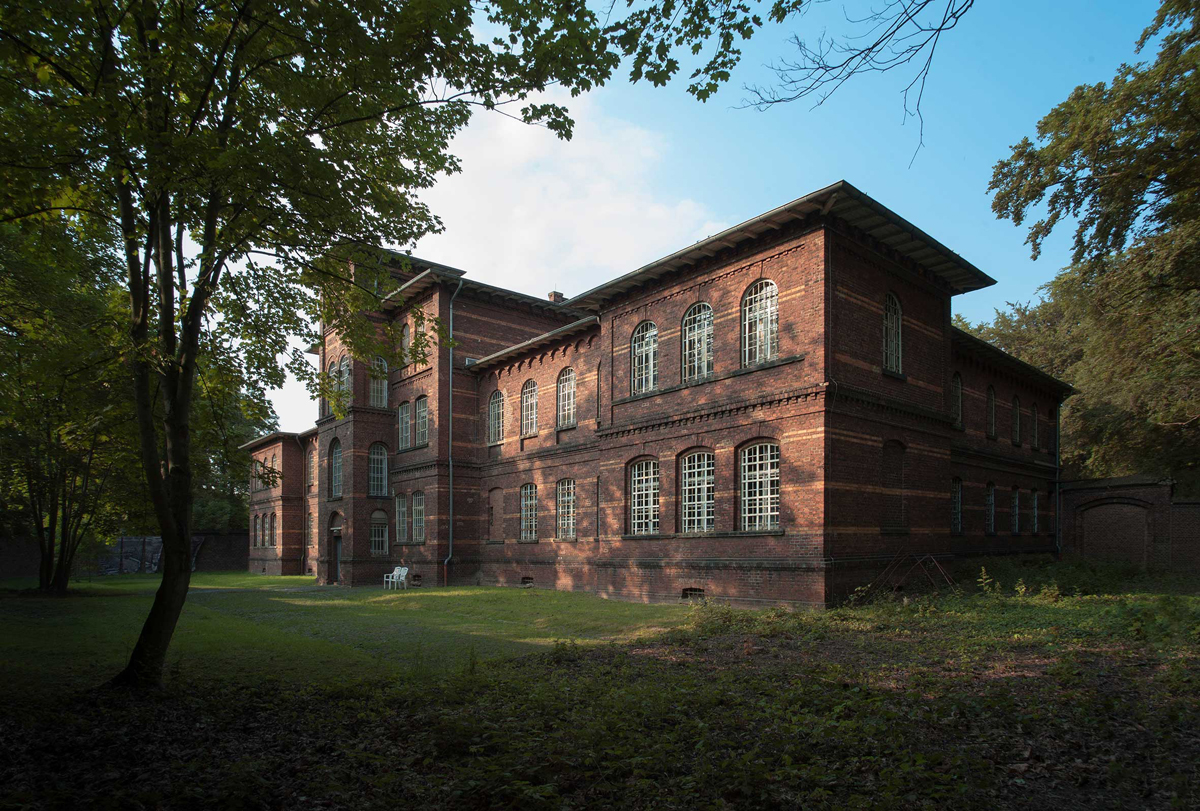 Haus 5 auf dem Gelände der LVR-Klinik Düren. Hier fand von Mai bis August 2014 die Ausstellung Moderne. Weltkrieg. Irrenhaus. 1900–1930 statt